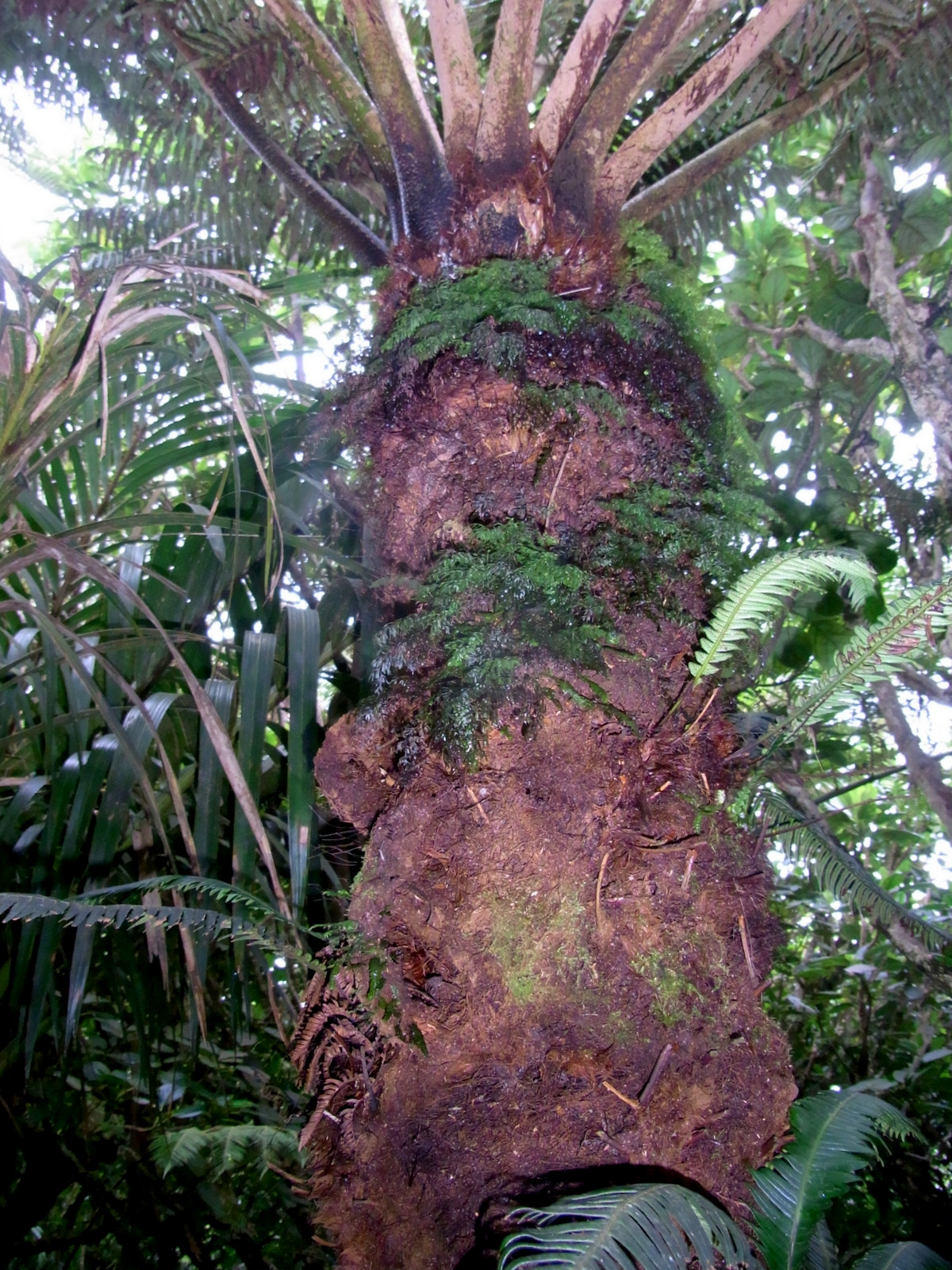 Cyathea howeana, Mount Gower summit with other ferns. Lord Howe Island